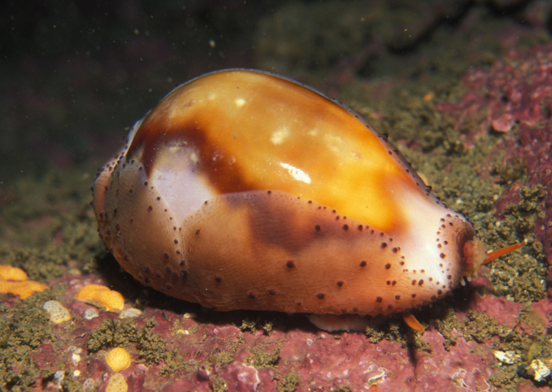 The chestnut cowry (Cypraea spadicea) is the only cold-temperate cowry found in California. Cowries are more typical of warmer, tropical waters.